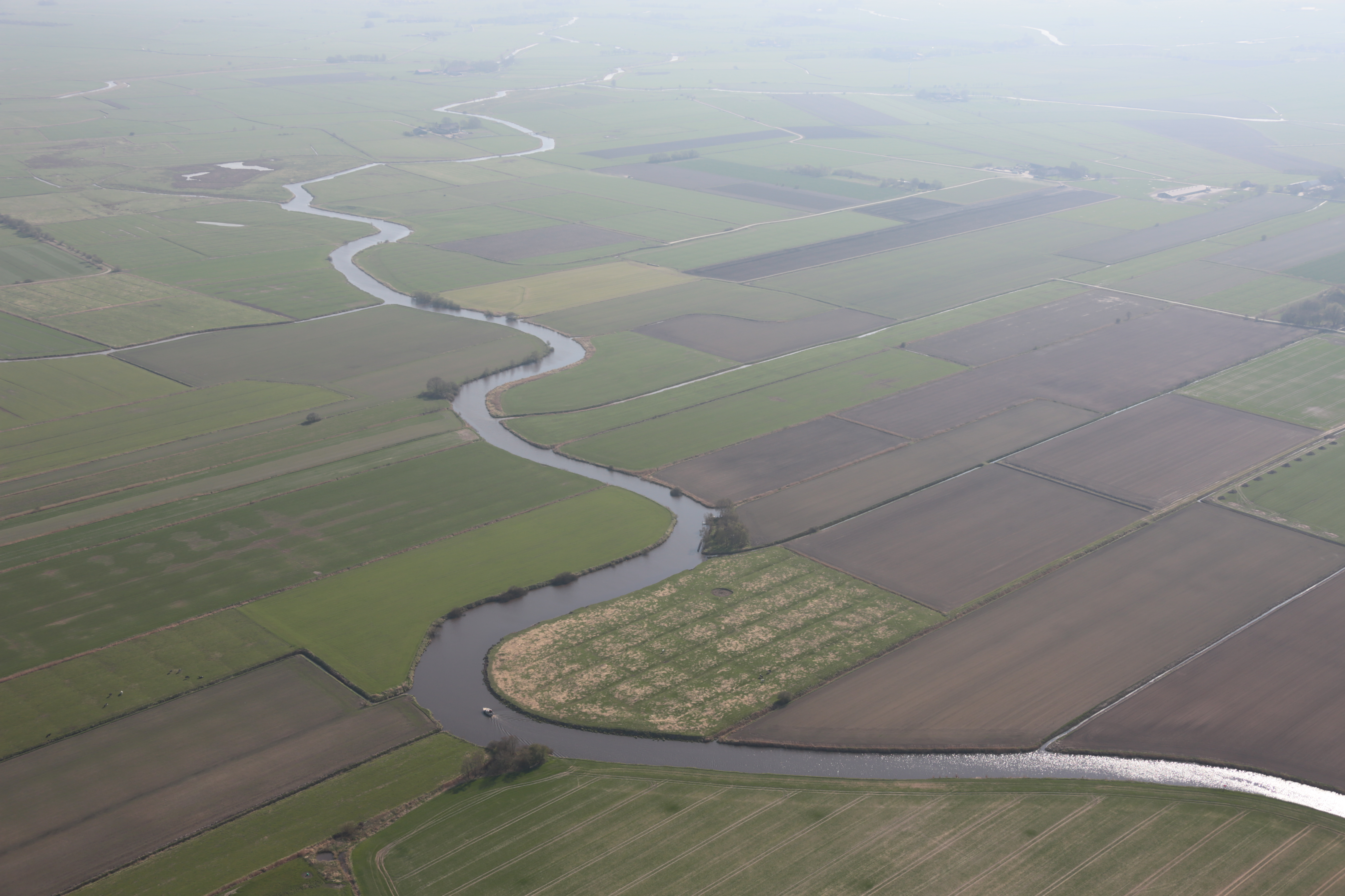 Fotoflug von Nordholz-Spieka nach Oldenburg und Papenburg This photo was taken by Alchemist-hp. If you use one of my photos, an email (account needed) or a message or direct to: my email account would be greatly appreciated. Please note the license terms. Other licensing terms can get discussed, too. This file is copyrighted and has been released under a license which is incompatible with Facebook's licensing terms. It is not permitted to upload this file to Facebook.